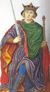 Picture of a king Henry I of Castile, son of Alfonso VIII of Castile.